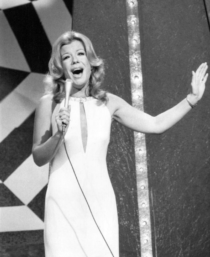 Photo of vocalist Vikki Carr.